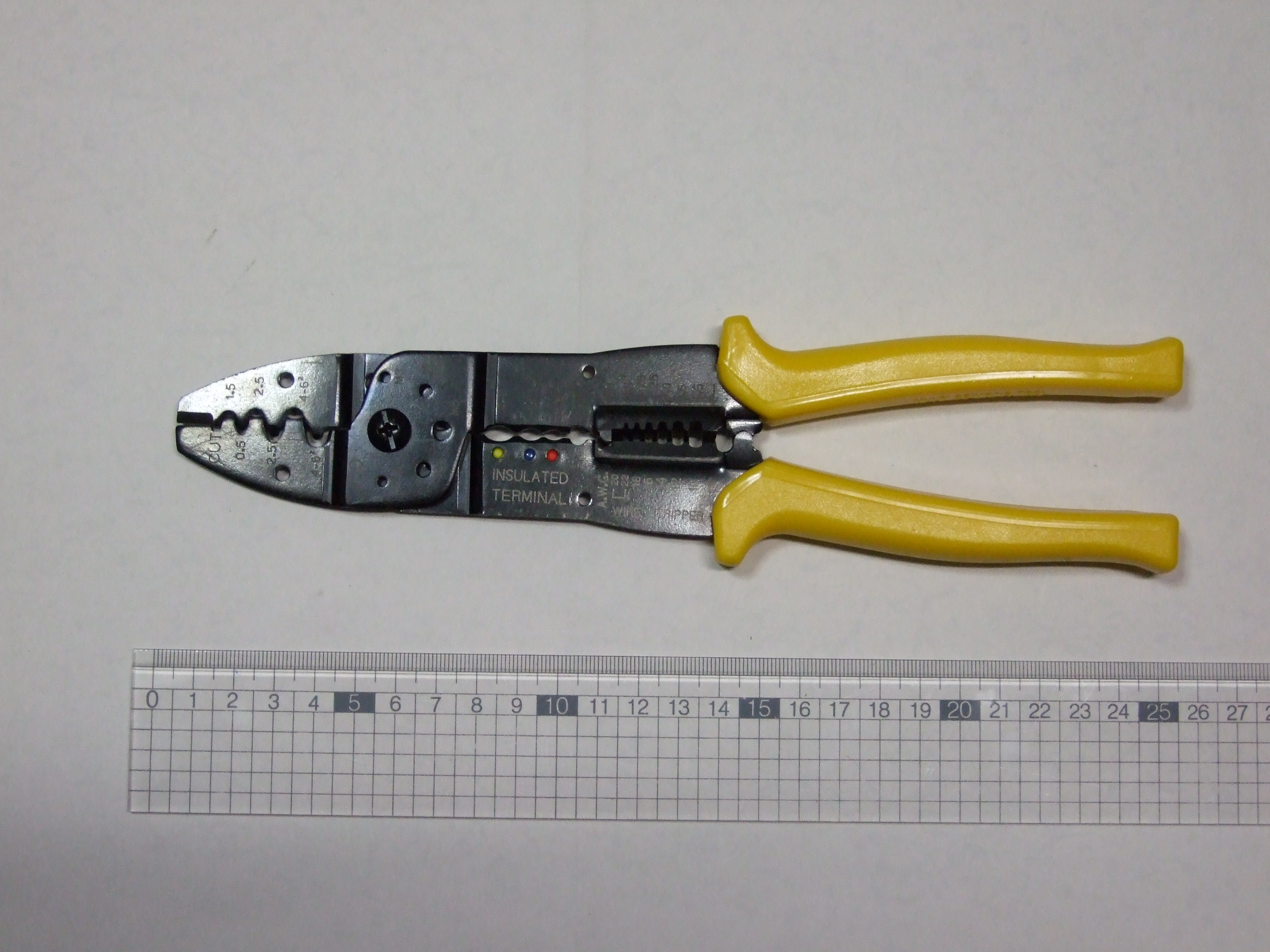 Hand crimp tool (Clipping Plier For Professional Use DX-1008. Made by Konyo Co., Ltd. Nigata, Japan). It has two kinds of crimpers for insulated terminals and non-insulated terminals, also has a wire cutter, screw cutters for ISO M2.6 / M3 / M3.5 / M4 / M5 (A.W.G. 20 & 22 / 18 / 16 / 14 / 12 / 10) and wire strippers for 0.5 / 0.75 / 1.25 / 2.0 / 3.5 / 5.5 mm2.